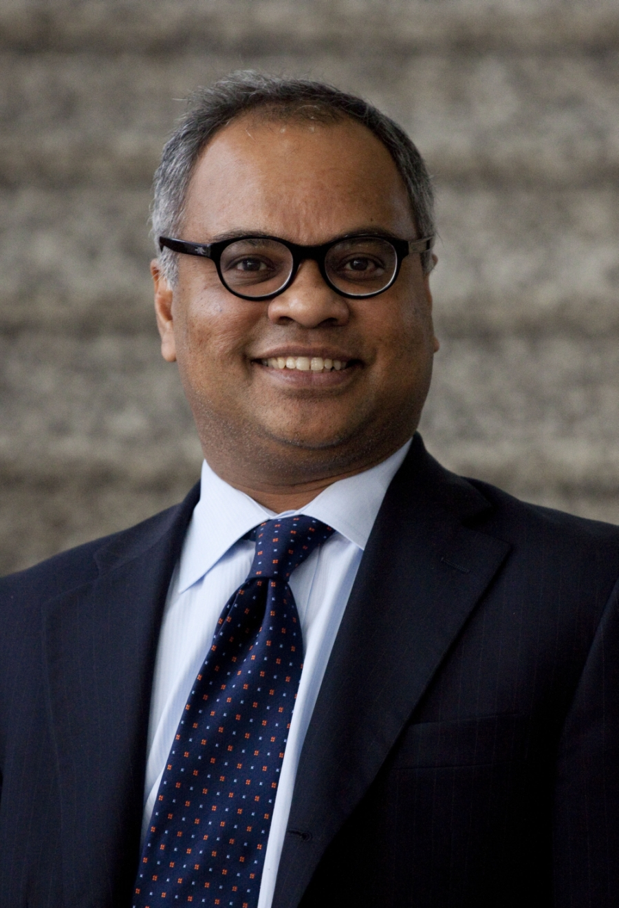 Ahmad, Kamal